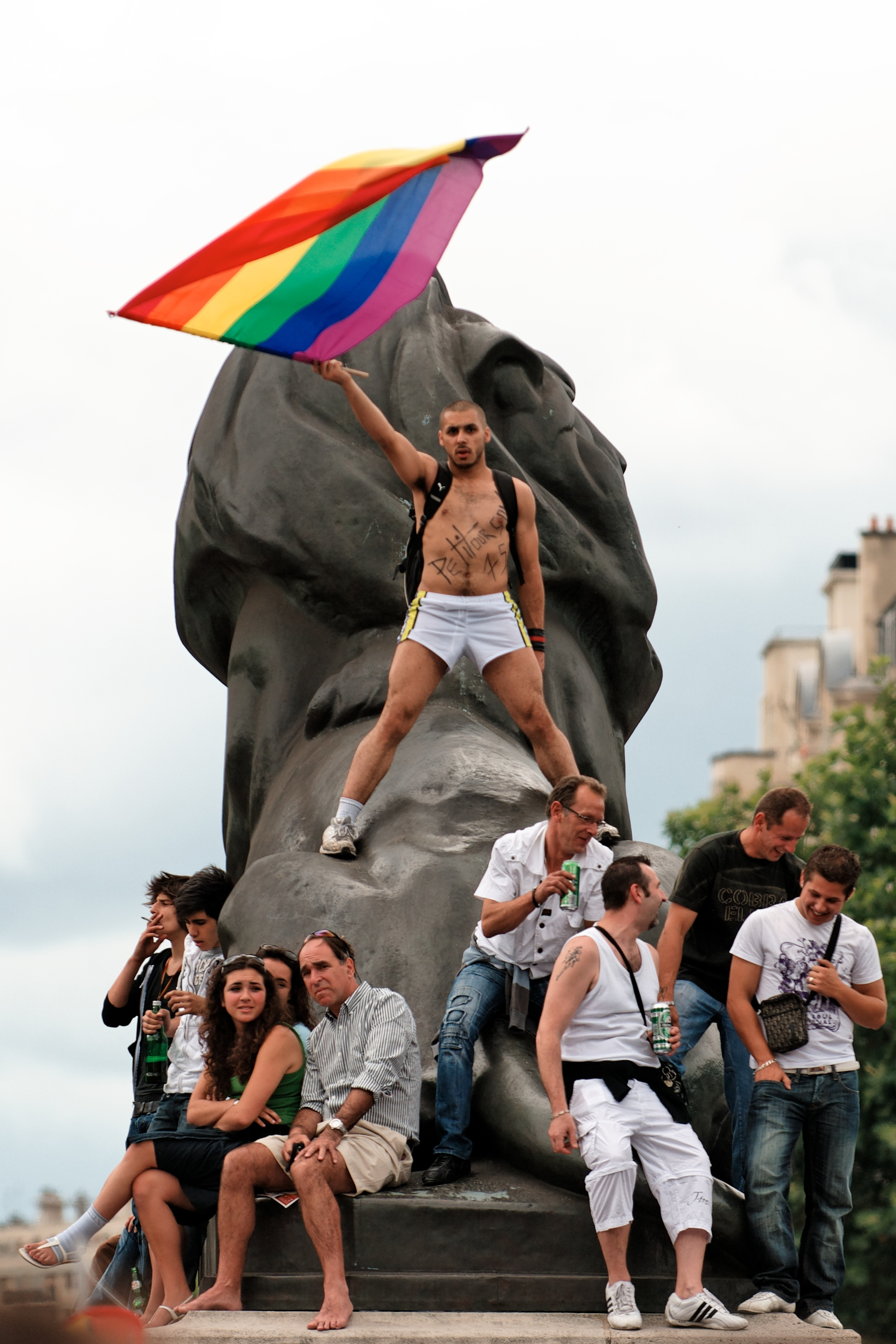 Young man perched on the Belfort Lion and waving the rainbow flag at the 2008 Gay Pride in Paris.